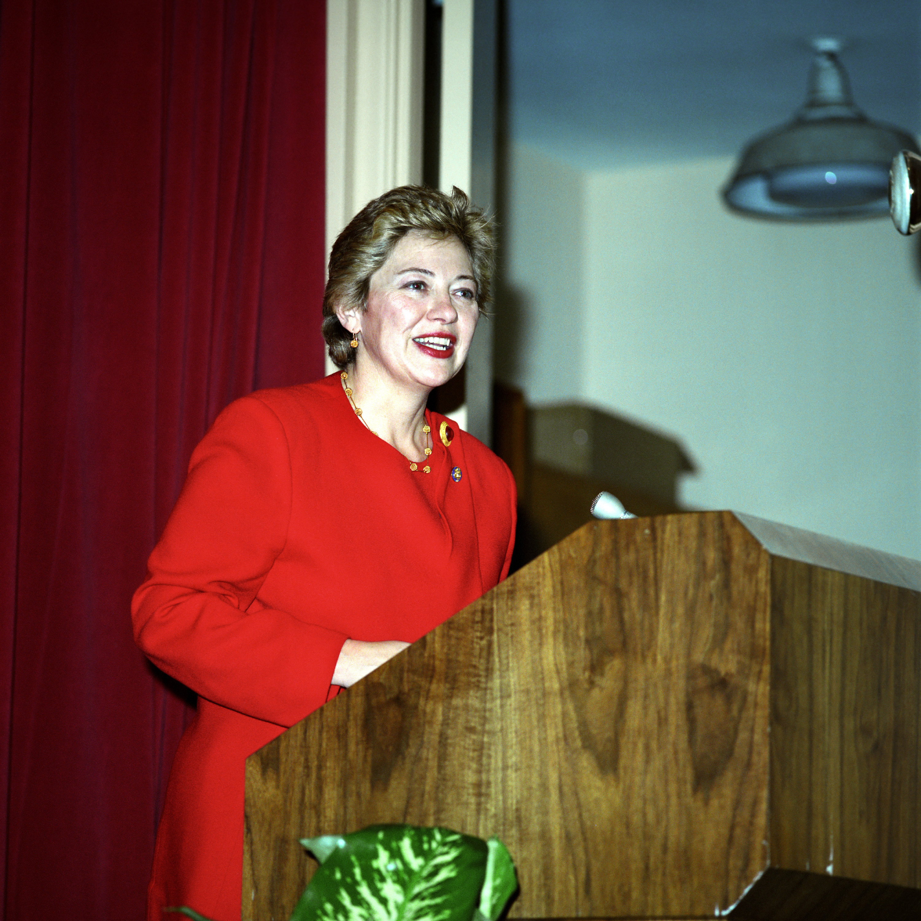 The Honorable Leslie L. Byrne, (D-VA), Representative, 11th Congressional District, gives her keynote address at the Pentagon, March 31, 1993, during the Women's History Month observance. OSD Package No. A07D-0167 (DOD Photo by Helene C. Stikkel) Location: Patrick Air Force Base, Florida (FL) United States of America (USA)